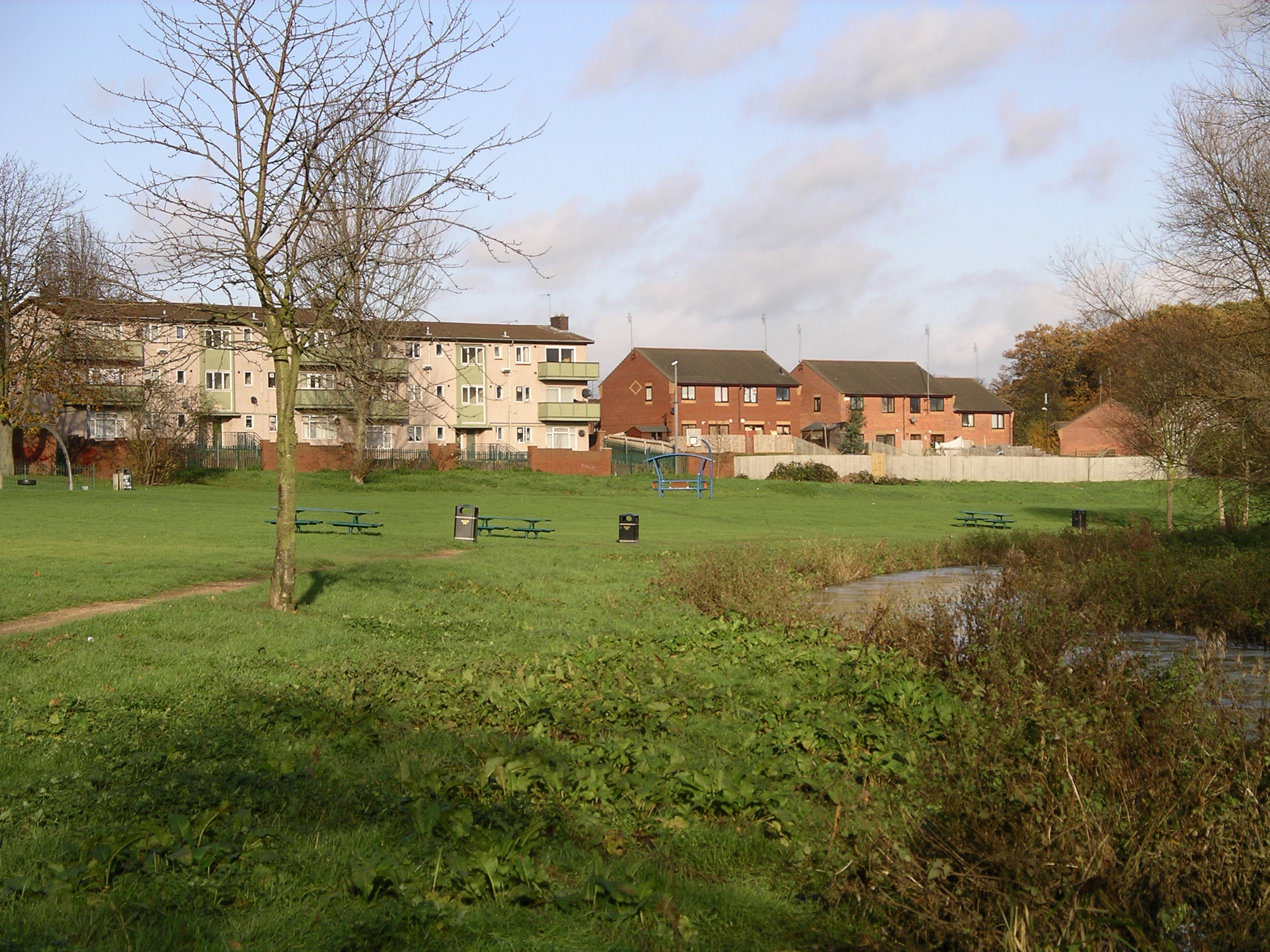 Photo of Stoke Aldermore by the River taken on 28 Nov 2006. The river is swollen after a rain storm the previous night.